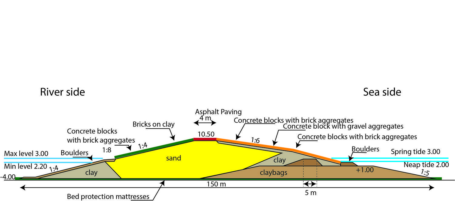 Cross section of the Feni dam, based on the original design drawings by Haskoning 1983 and 1985